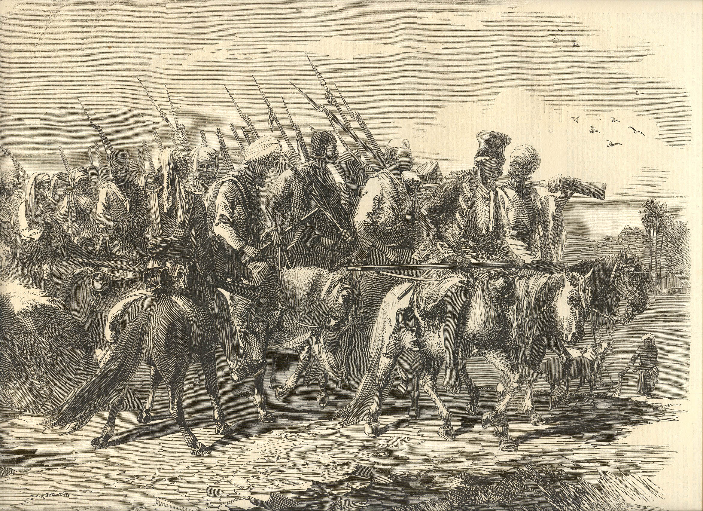 "Tantia Topee's Soldiery," from the Illustrated London News